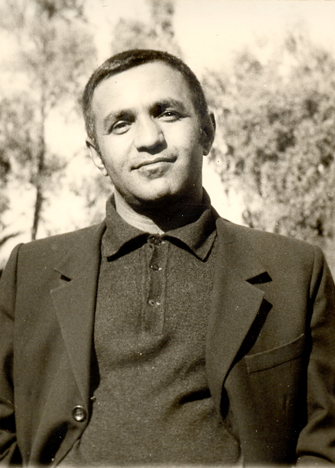 muhammed mula karim mudaris کوردی: حەمەی مەلا كەریم